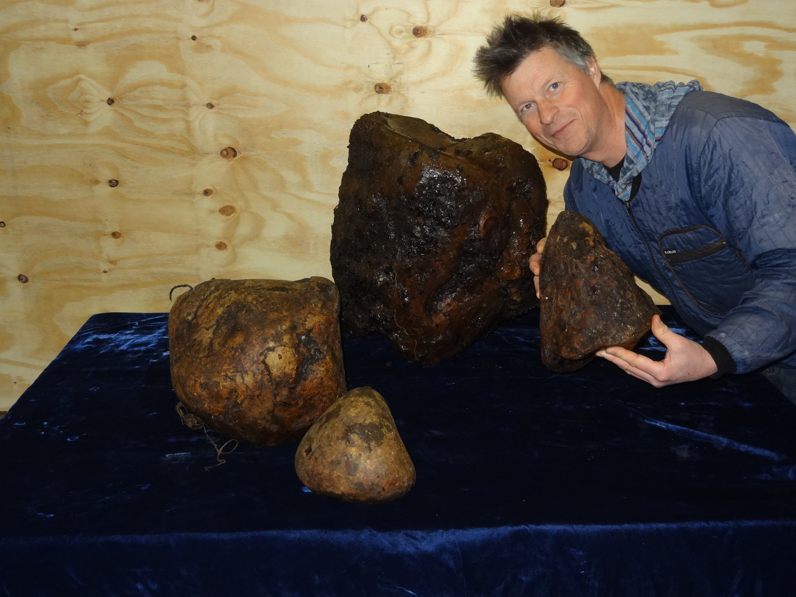 ambergris from a sperm whale in 2012 in Ecomare